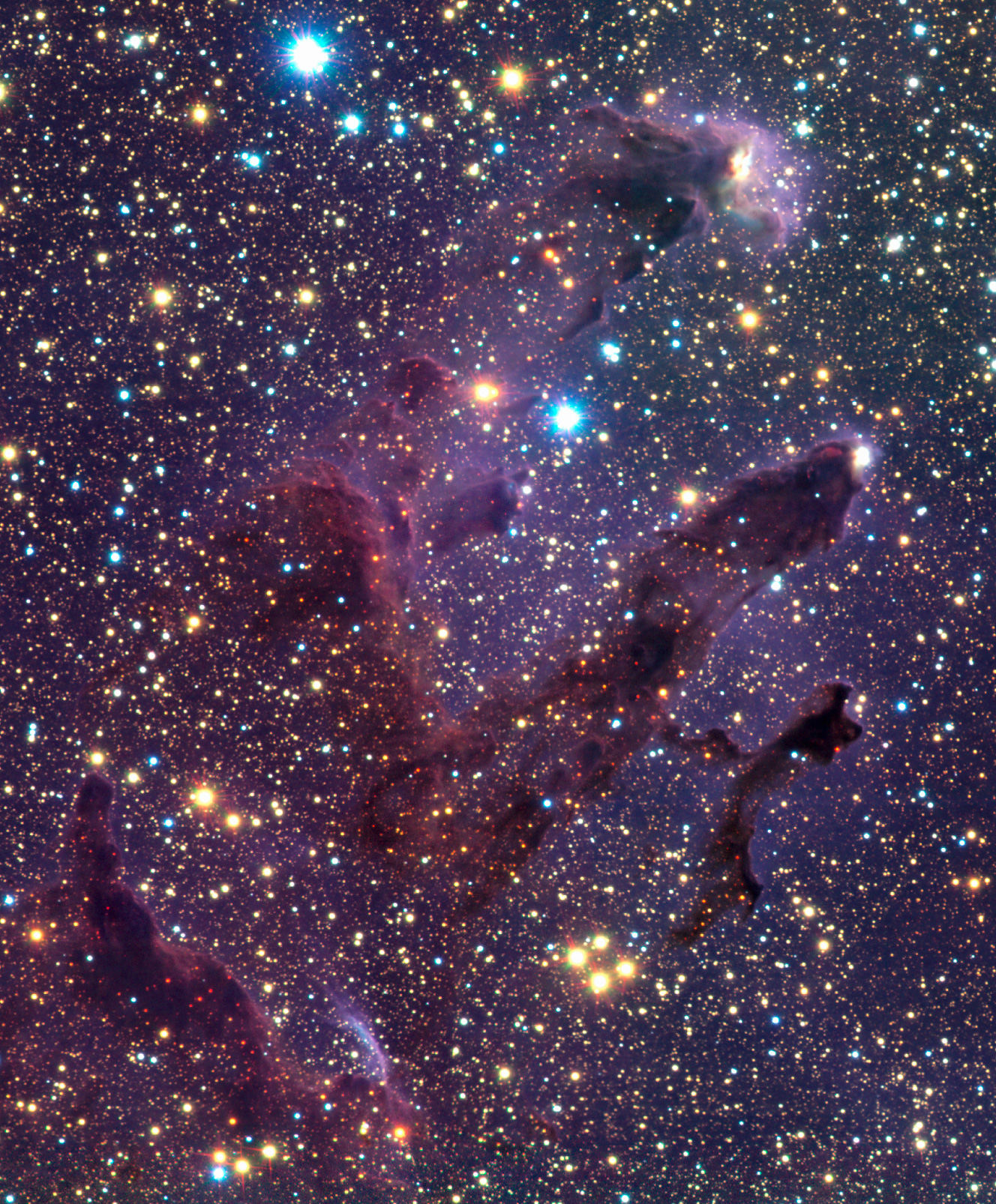 An infrared view of M16 and its famous 'Pillars of Creation'. The pillars or columns are numbered 1 to 3 from left to right (east to west). The pillars themselves are less prominent than on the Hubble visible-light image of this region - this because near-infrared light penetrates the thinner parts of the gas and dust clouds and only the heads remain opaque. A number of red objects can be seen associated with the pillars: some of these are just background sources seen through the dust, but some are probably real young stars embedded in the pillars. The purple arc near the bottom of the picture is Herbig-Haro object 216, a fast-moving clump of heated gas emanating from a young star